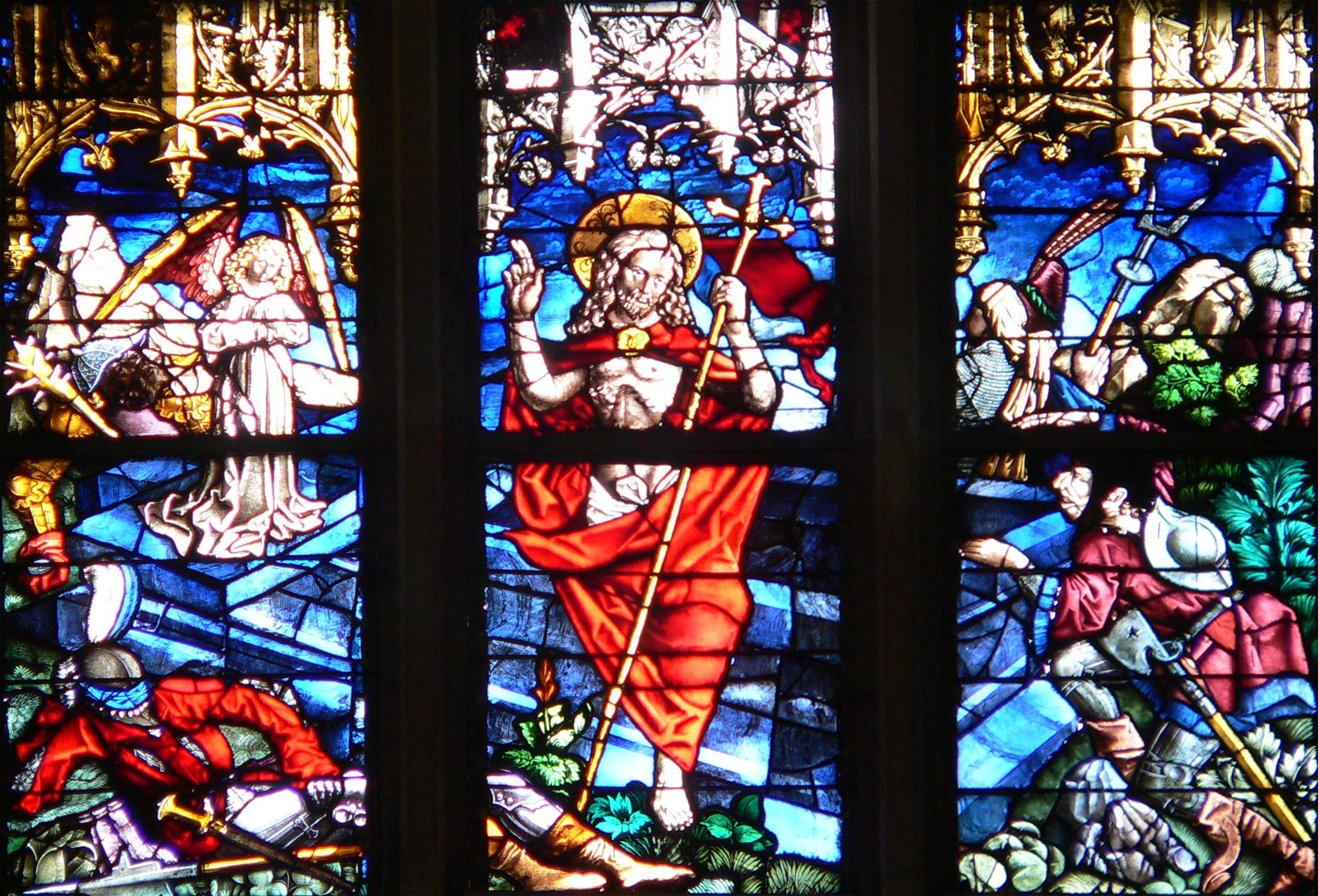 The Lutheran cathedral "Ulm Münster" of Ulm/Germany, Detail of the coloured window "Kramerfenster", Resurrection of Christ (scene of the bible)